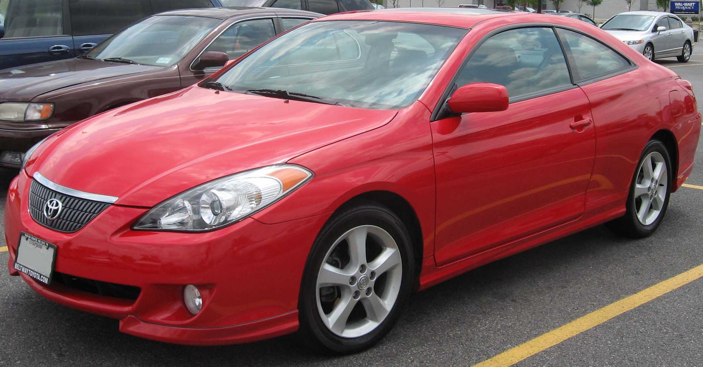 2004-2006 Toyota Solara photographed in USA.